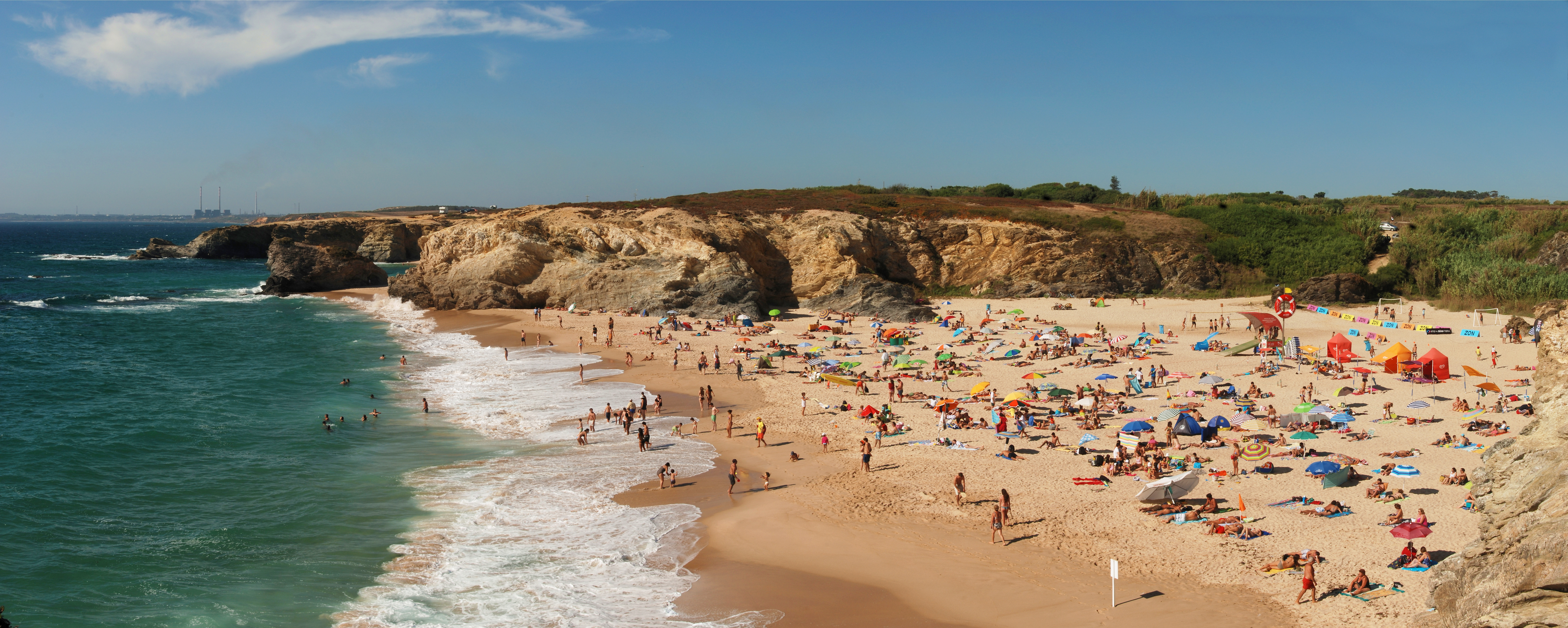 Praia Grande, Porto Covo 1/125